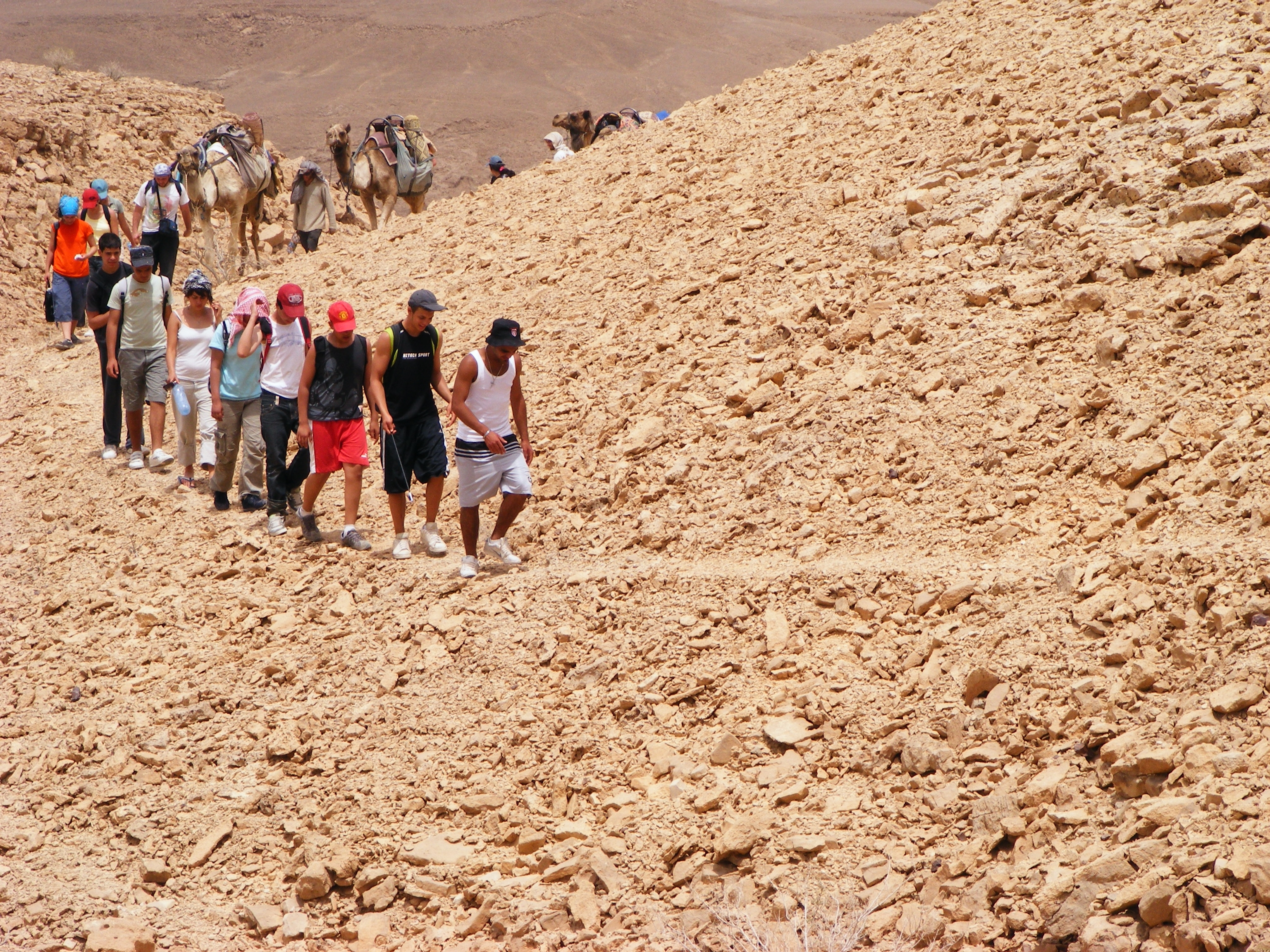 The youth is hiking in the desert .. teamspirit.